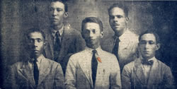 Image of the worker strike of the Banana plantation in Santa Marta, Colombia. From left to right Pedro M. del Río, Bernardino Guerrero, Raúl Eduardo Mahecha, Nicanor Serrano and Erasmo Coronell. Guerrero and Coronell died in the Banana Massacre Nov 12, 1928 in Santa Marta, Colombia.